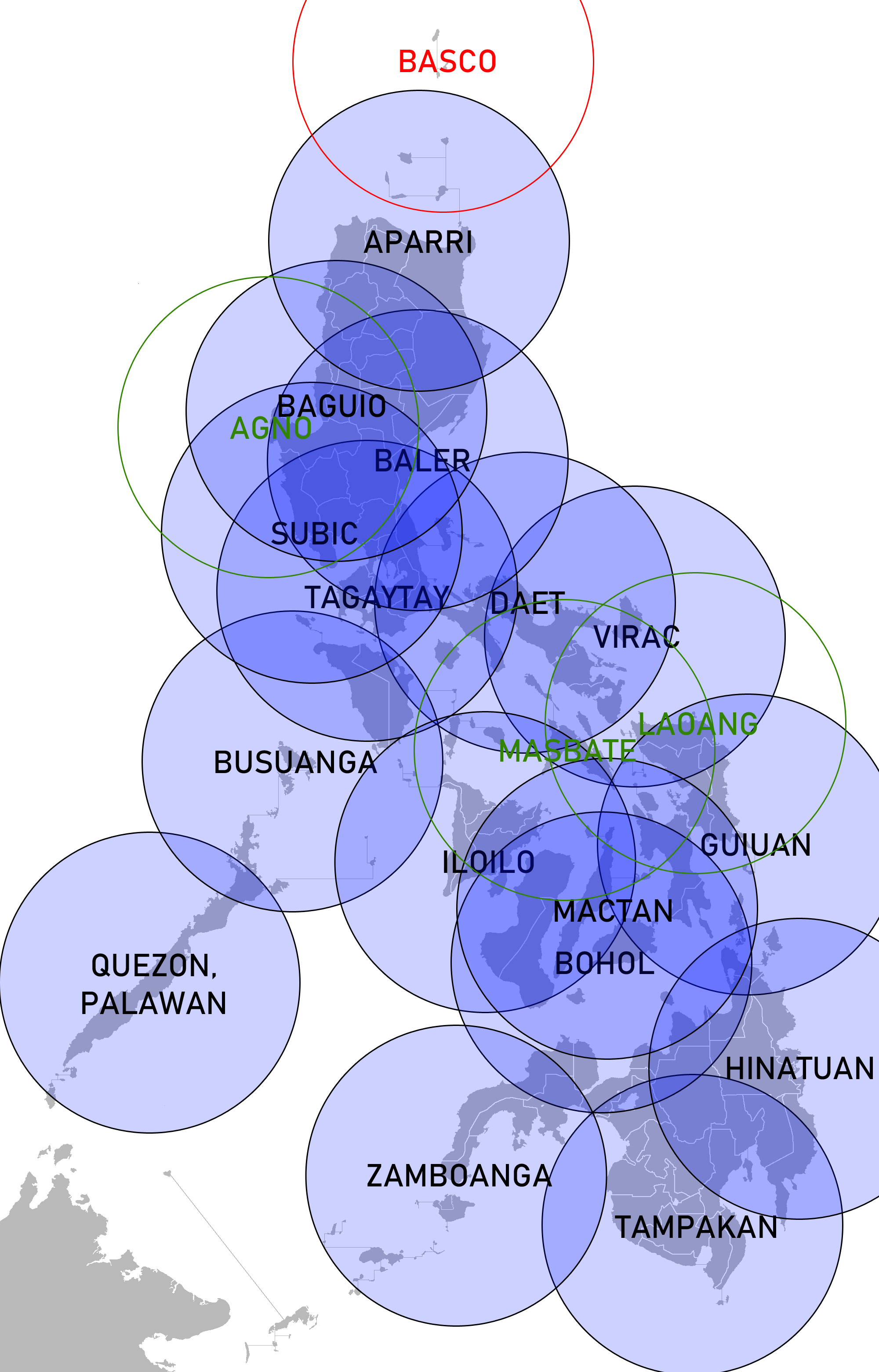 Map that shows Doppler radar location and its approximate 200 kilometer minimum range in the Philippines.Black circles with blue shades: OperationalRed circles: Not in operation due to structural damageBlue circles: Currently under construction or installationGreen circles: Proposed new Doppler radar locations